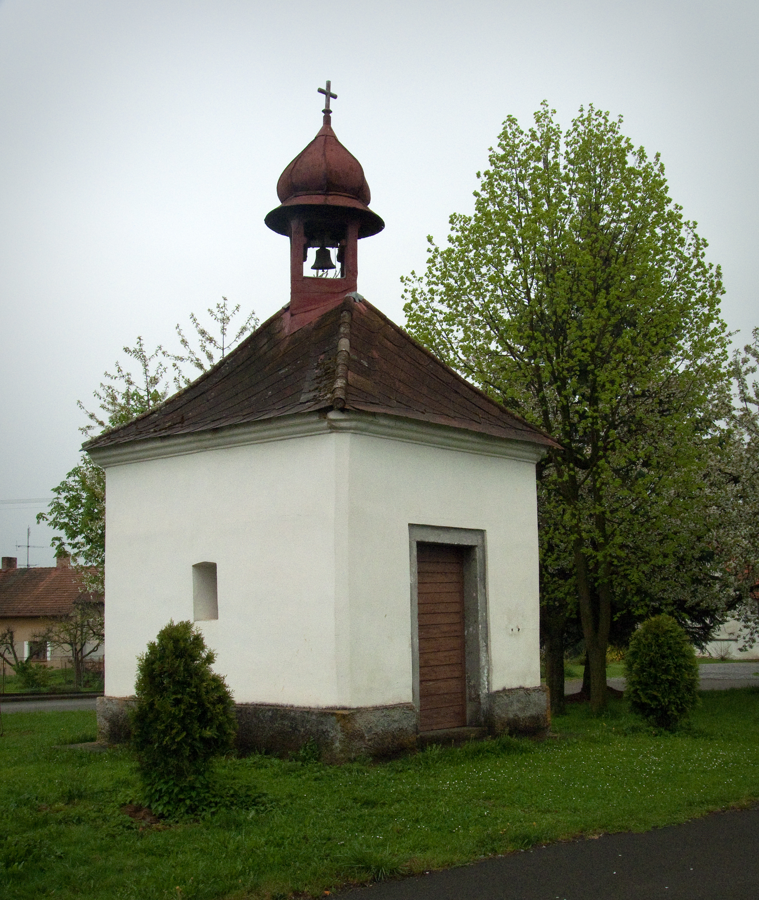 St Mary Chapel in Stará Vožice, Tábor district, Czech Republic - Google Maps - Google Earth This photograph was taken within the scope of the 'Czech Municipalities Photographs' grant.